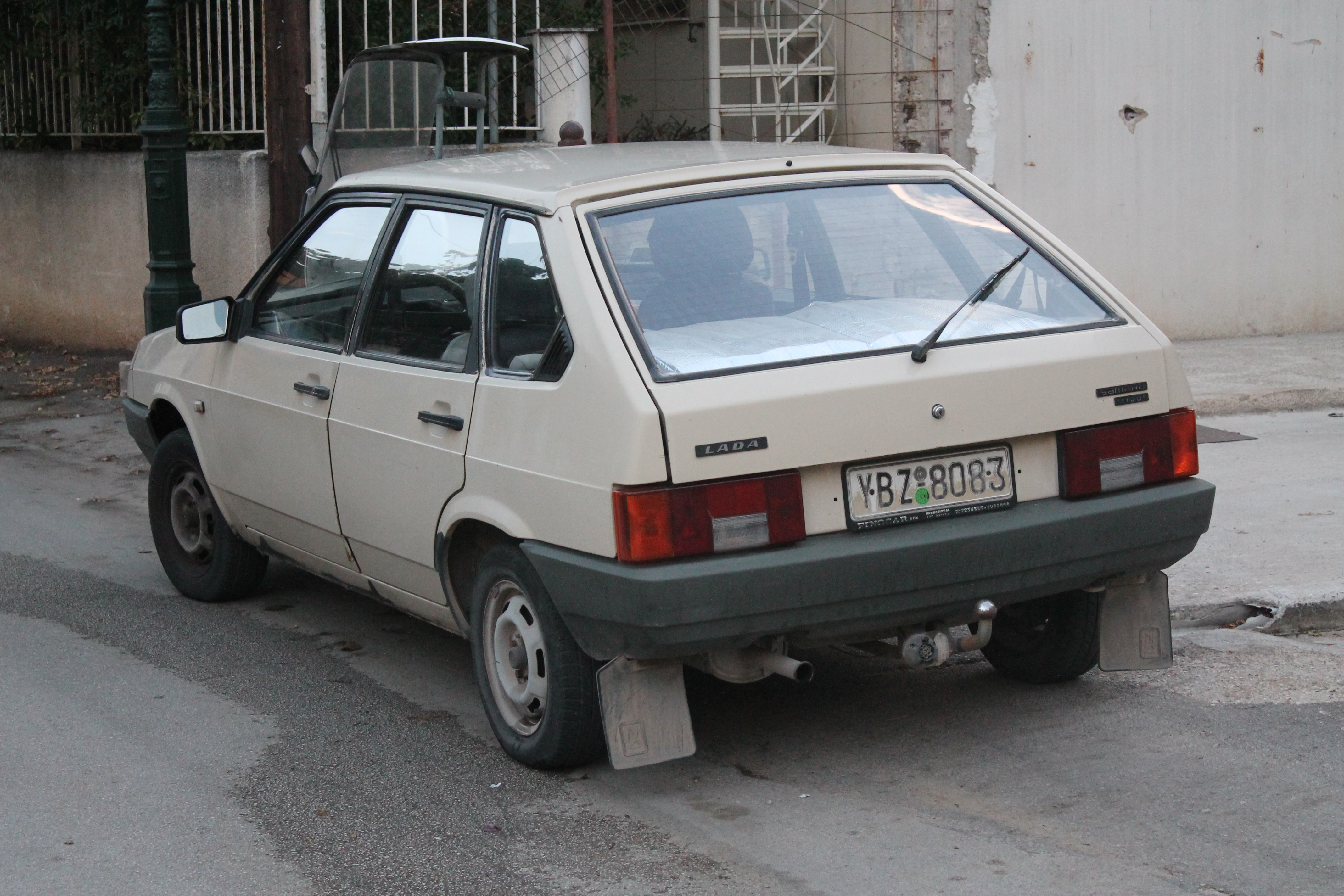 I believe this is an earlier one with that ugly protruding front grille, which was replaced later on. This example is actually not looking bad at all, and is finished in a rather fetching beige-white colour. The badge was so faded, it wasn't easy to tell the model, but it could say something like 1100E? If that is right, then this has the smallest engine of the range. This is the first Samara hatch I've spotted- only seen a Samara sedan before. Becoming rare in all places outside the former Soviet Union. Nice and original too, with lovely Lada mudflaps at the back! Maybe this is a Soviet built example? Hard to believe this model of car continued until 2004!